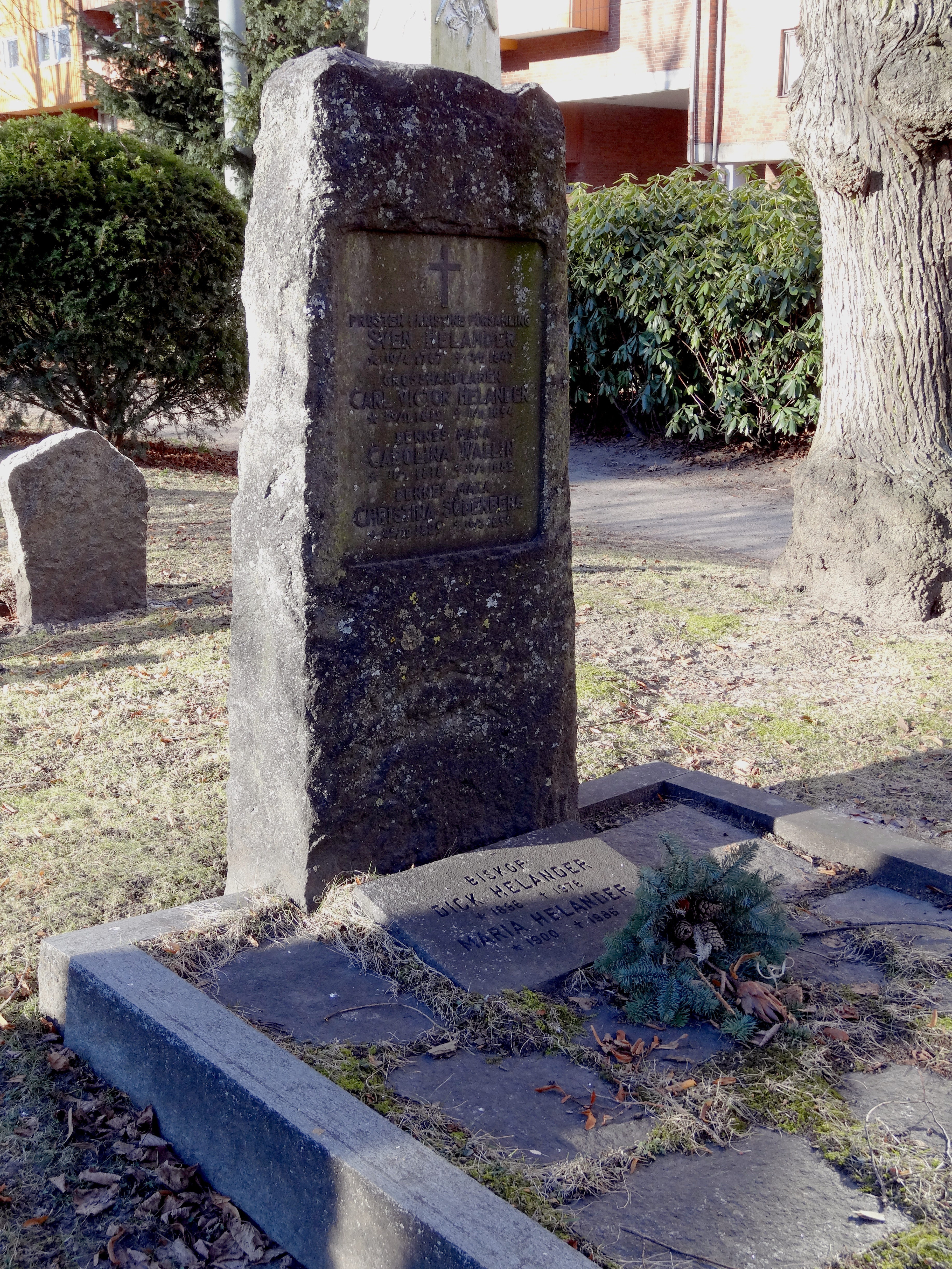 Gravestone of Swedish bishop Dick Helander (1896-1978) at the Stampen cemetery in Gothenburg, Sweden.